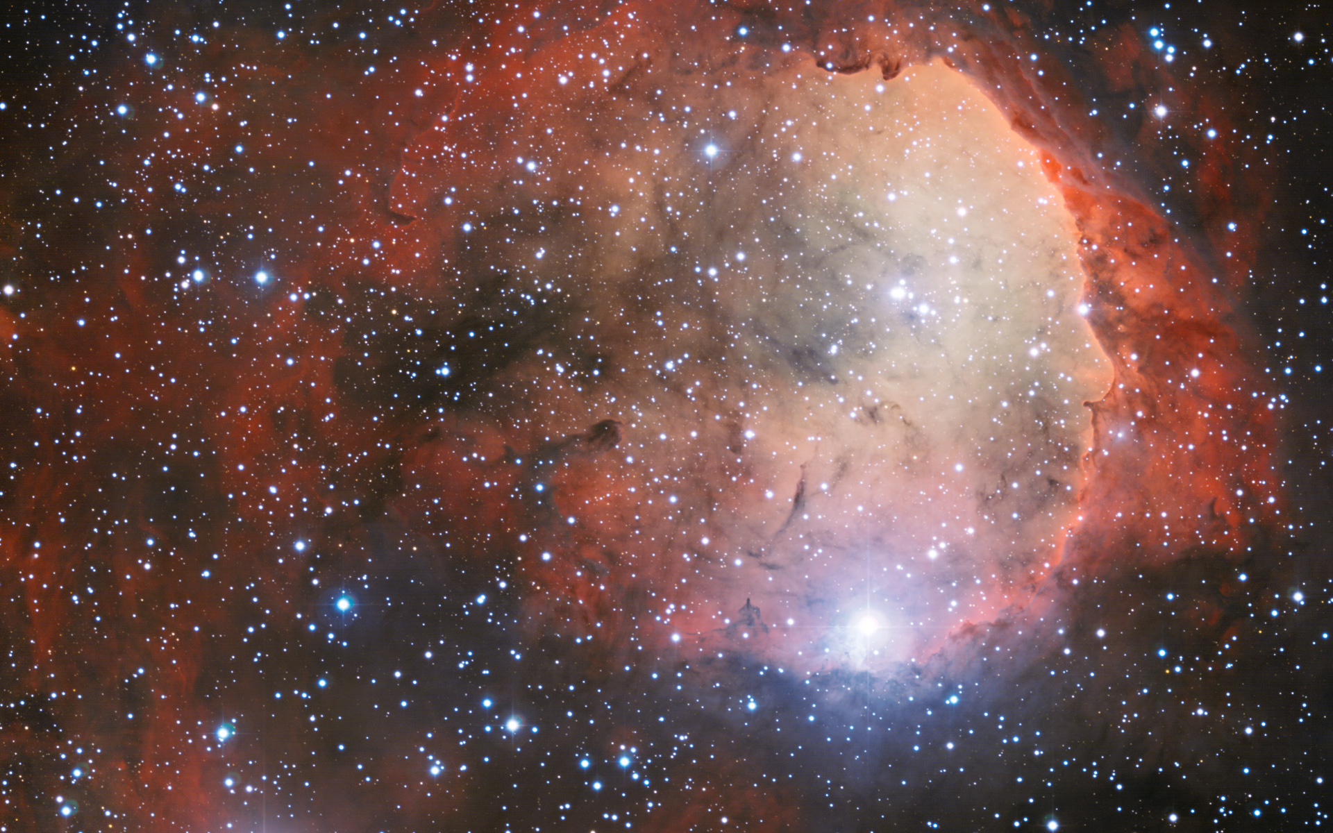 The Wide Field Imager on the MPG/ESO 2.2-metre telescope at the La Silla Observatory has imaged a region of star formation called NGC 3324. The intense radiation from several of NGC 3324's massive, blue-white stars has carved out a cavity in the surrounding gas and dust. The ultraviolet radiation from these young hot stars also cause the gas cloud to glow in rich colours.